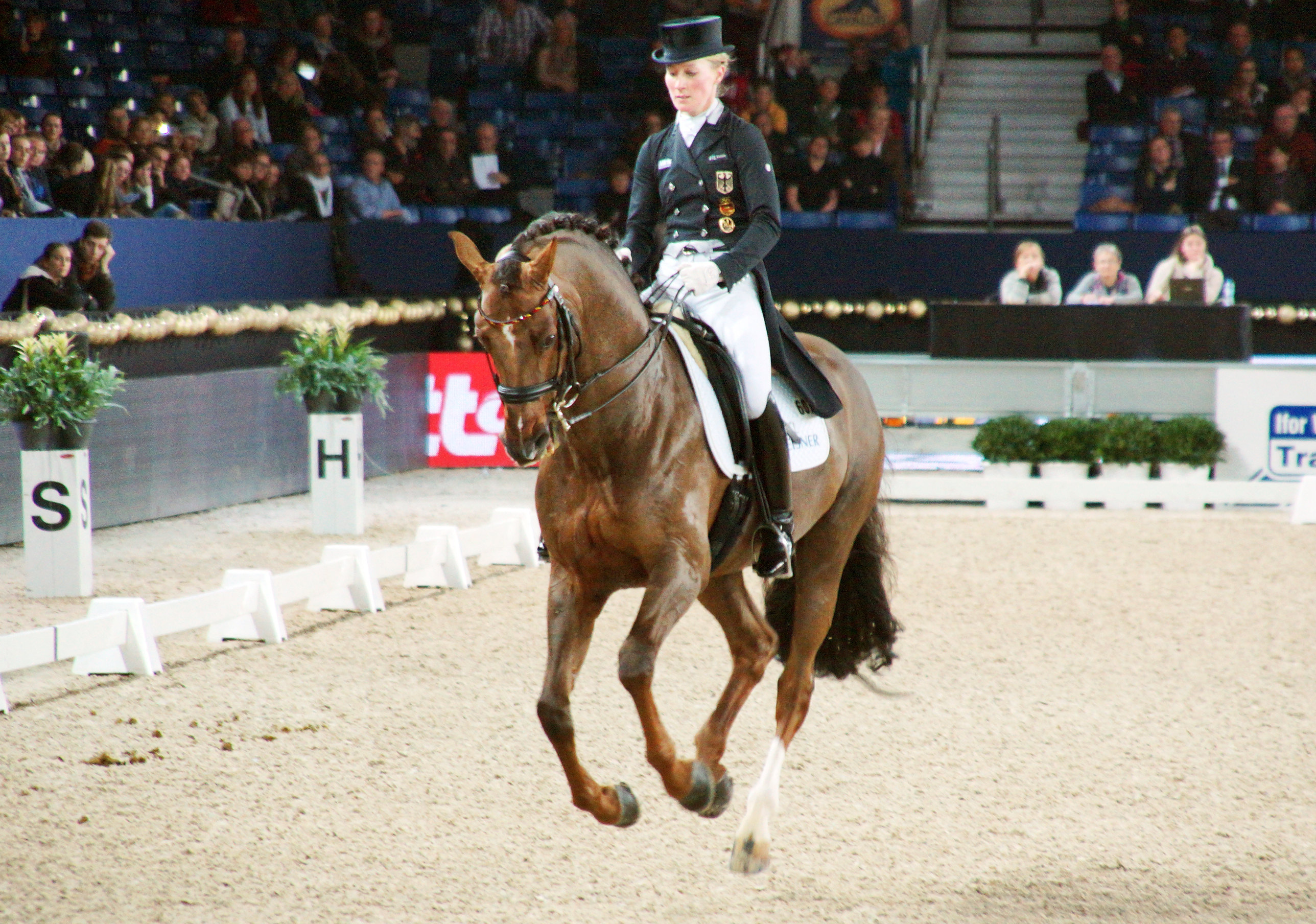 CDI 5* World Dressage Masters at 2013 Vlaanderens Kerstjumping - Jumping Mechelen: Helen Langehanenberg and Damon Hill NRW at Grand Prix de Dressage